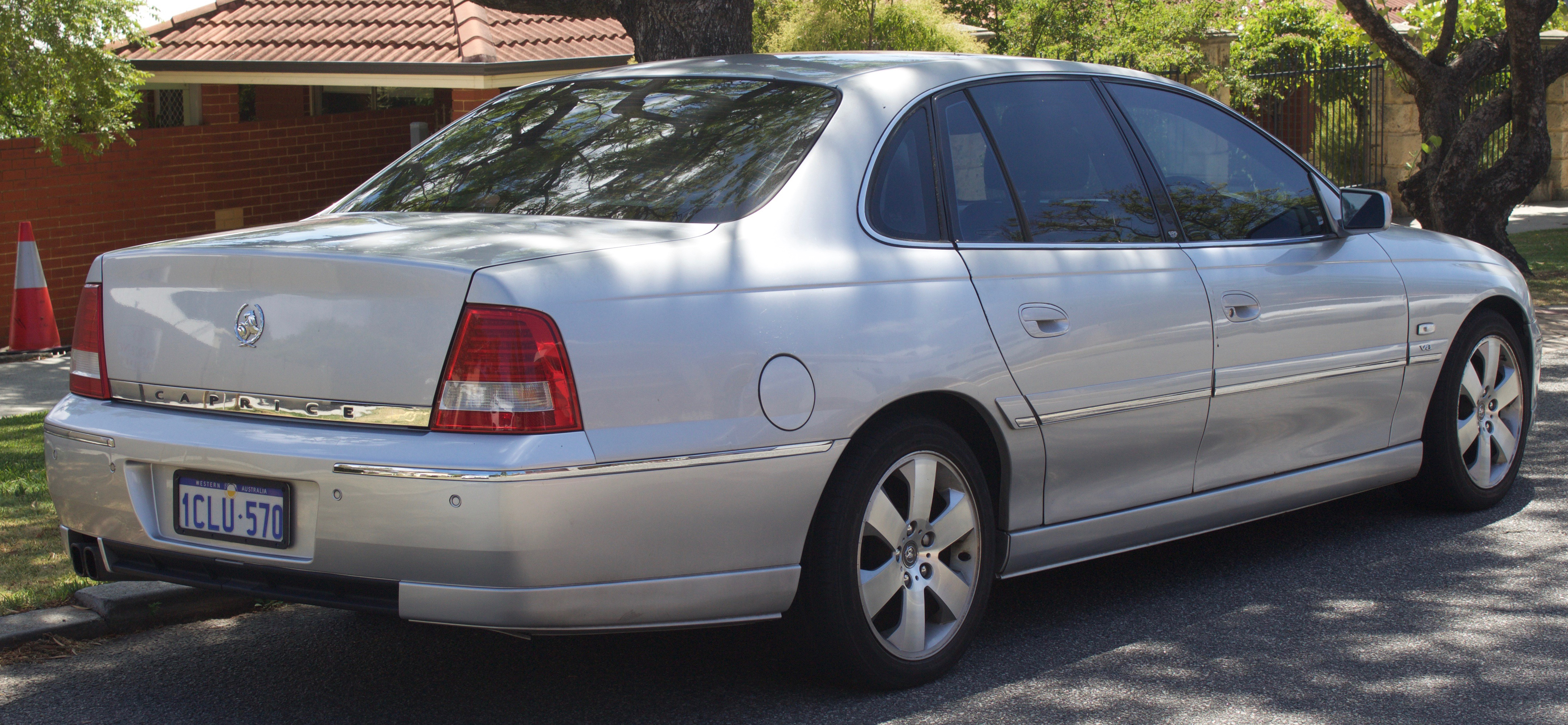 2004-2006 Holden Caprice (WL) sedan. Photographed in West Leederville, Western Australia, Australia.